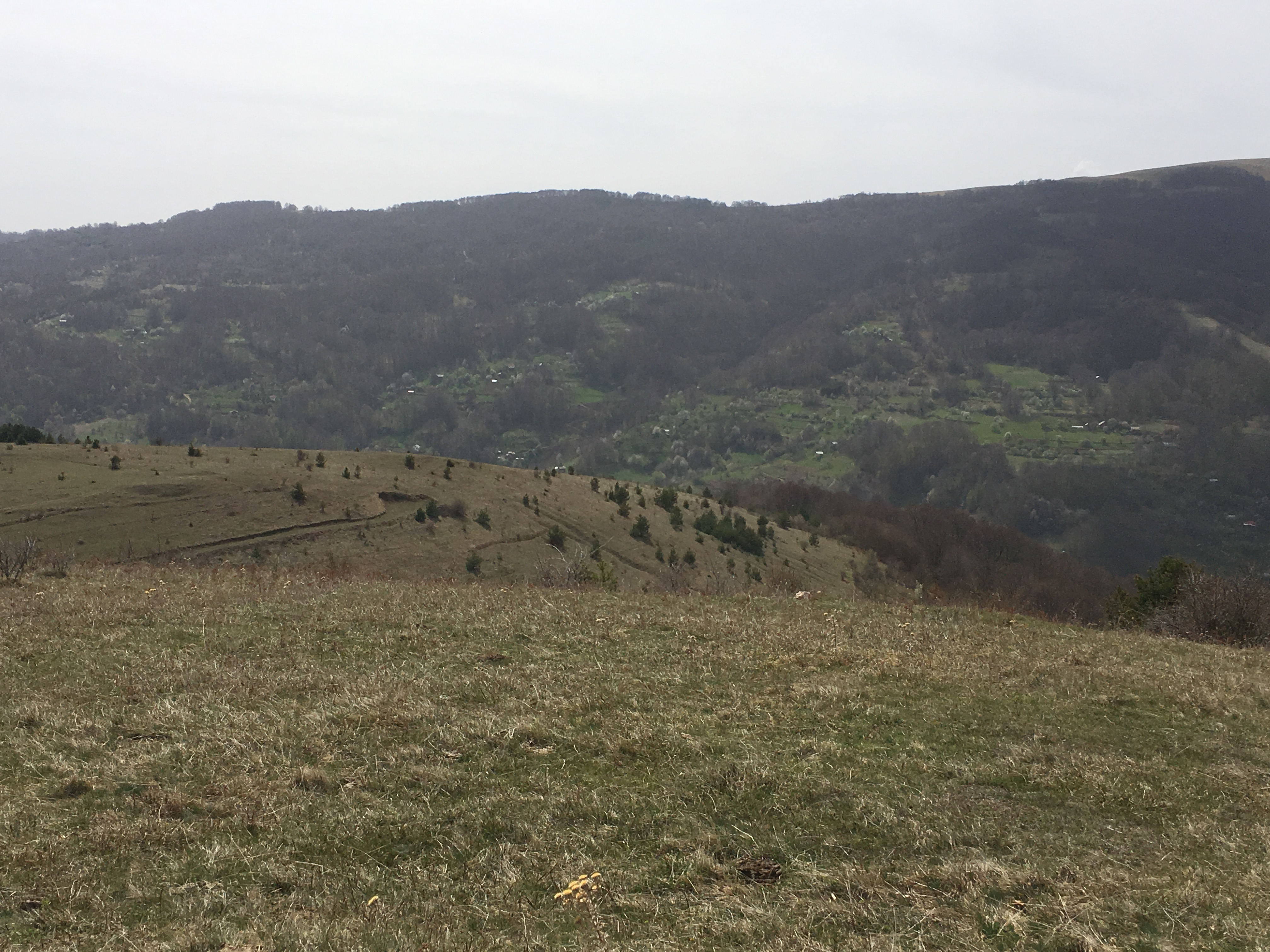 A view of the village of Luke